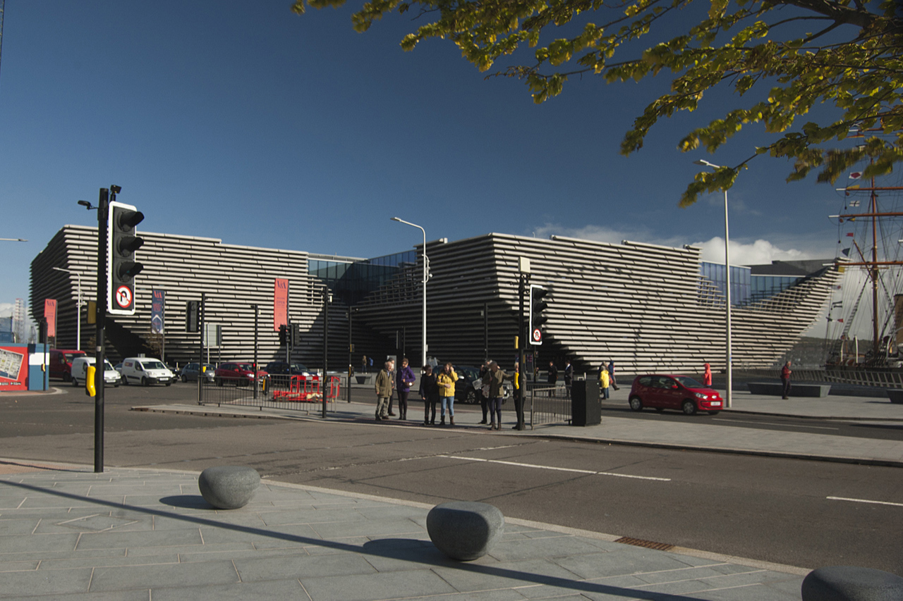 Quick snapshot of V&A Dundee building in late September 2018, during opening week.